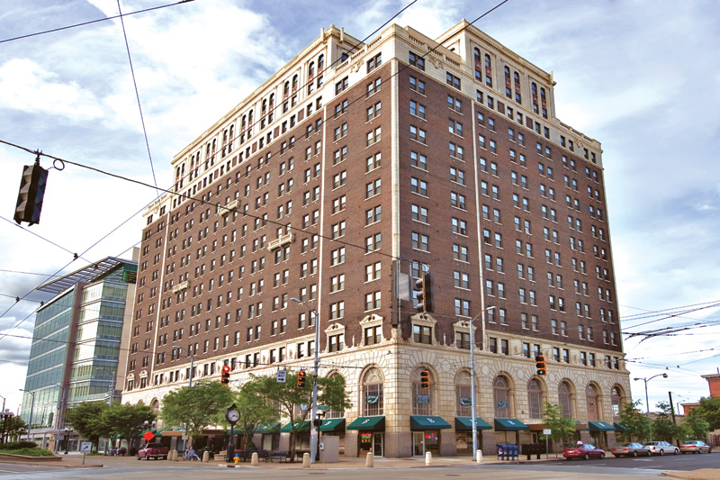 Biltmore Hotel in Dayton, OH